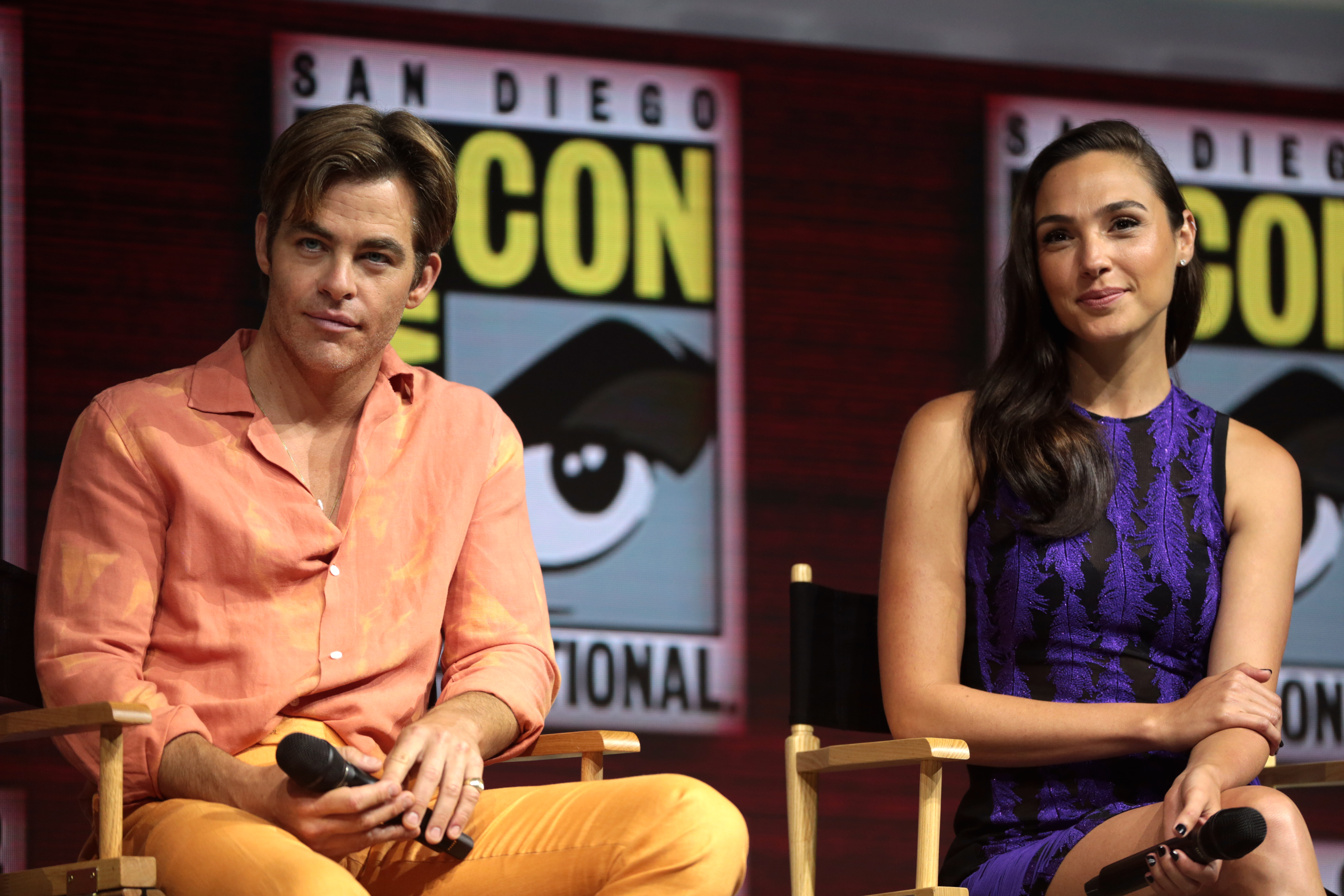 Chris Pine and Gal Gadot speaking at the 2018 San Diego Comic Con International, for "Wonder Woman 1984", at the San Diego Convention Center in San Diego, California.